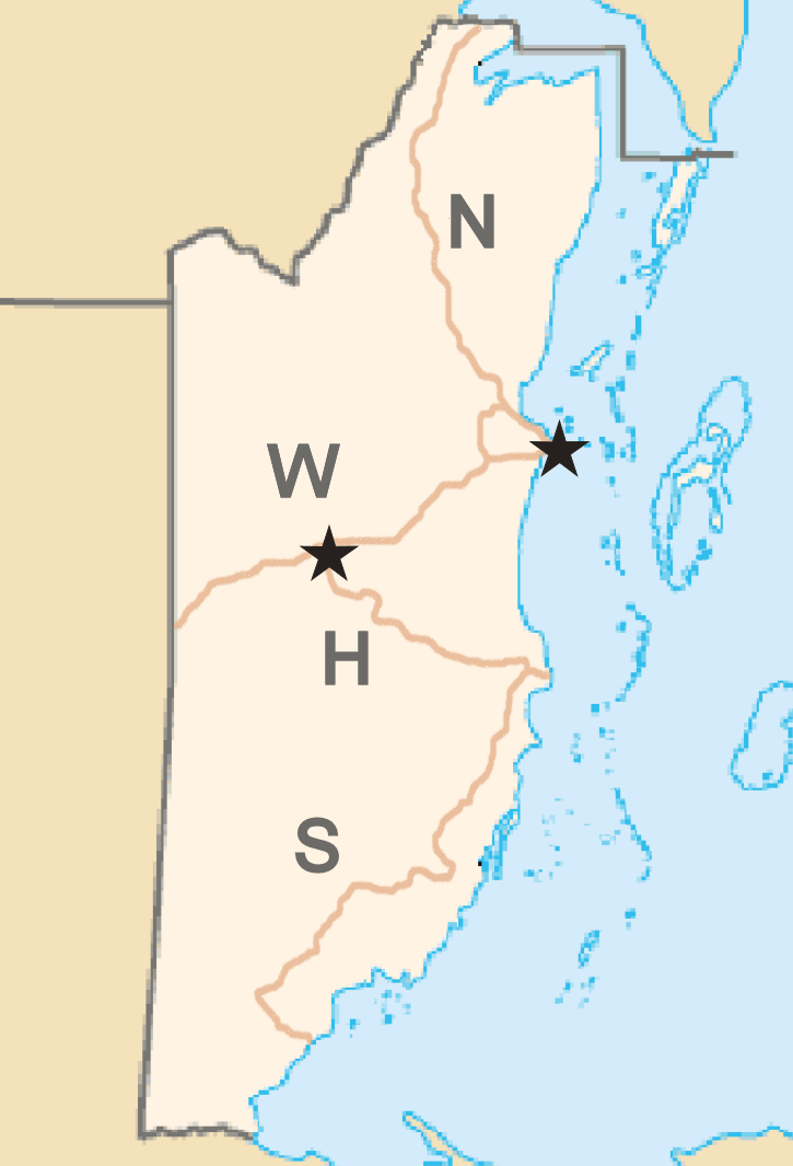 4 main highways in Belize